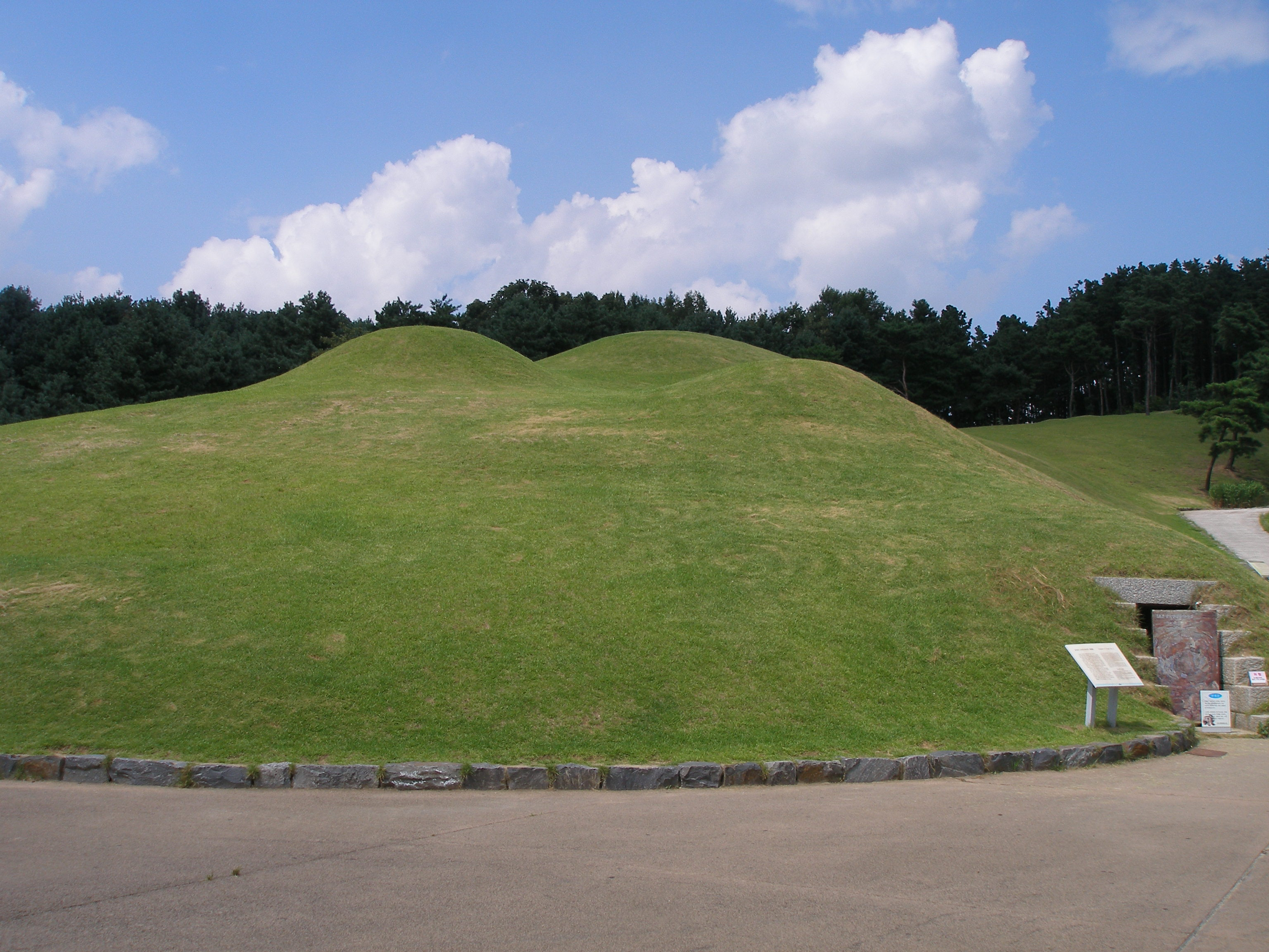 left is No.5, right is No.6, the center is Muryeong